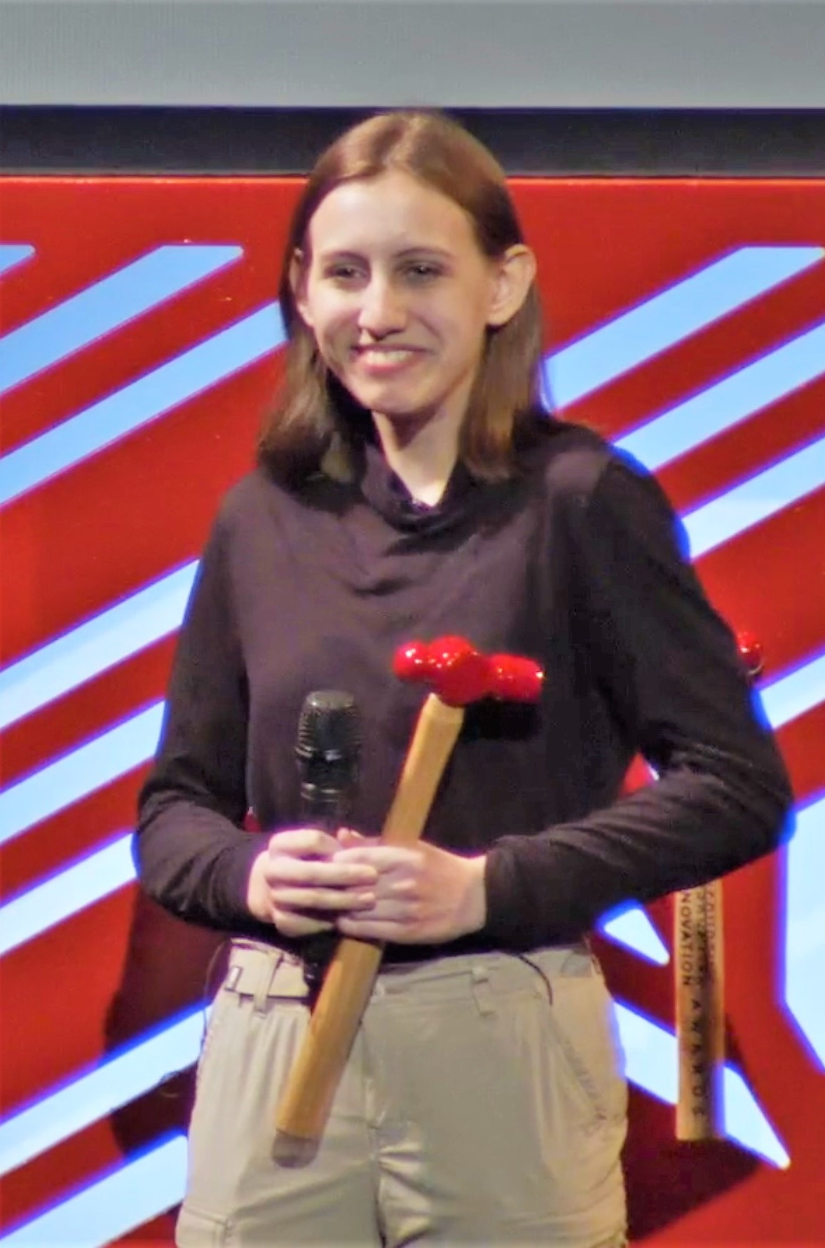 American climate activist Alexandria Villaseñor receiving 2019 Tribeca Disruptive Innovation award.